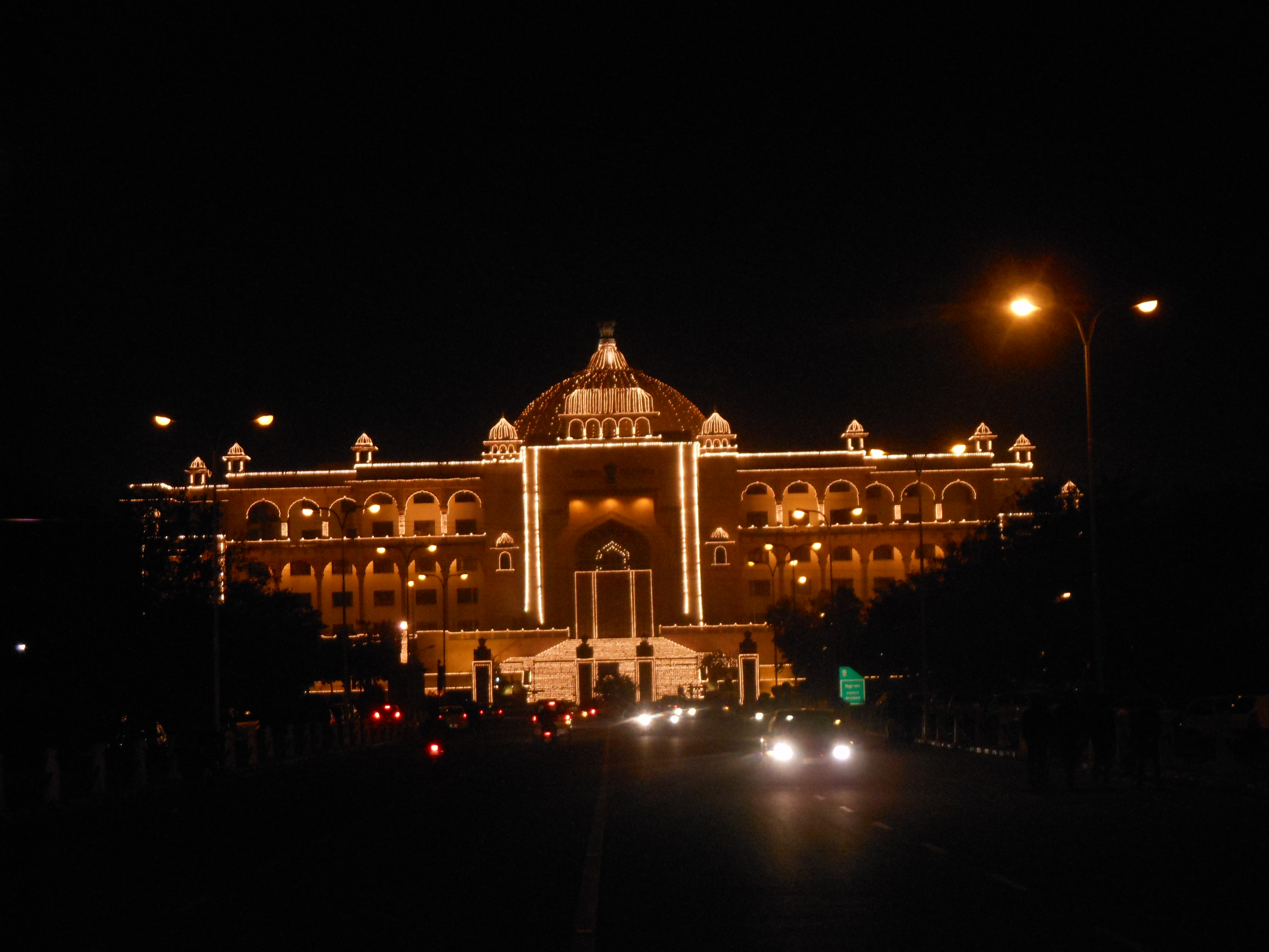 Rajasthan Vidhan Sabha, Jaipur, India